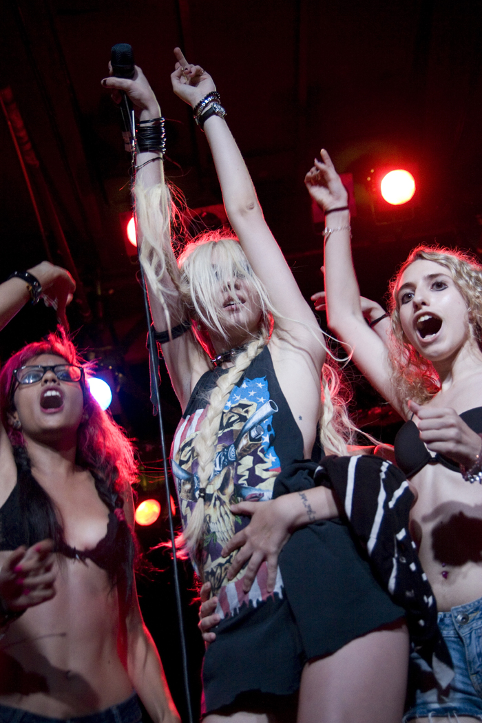 The Pretty Reckless - Razz 2 - Julio 2011